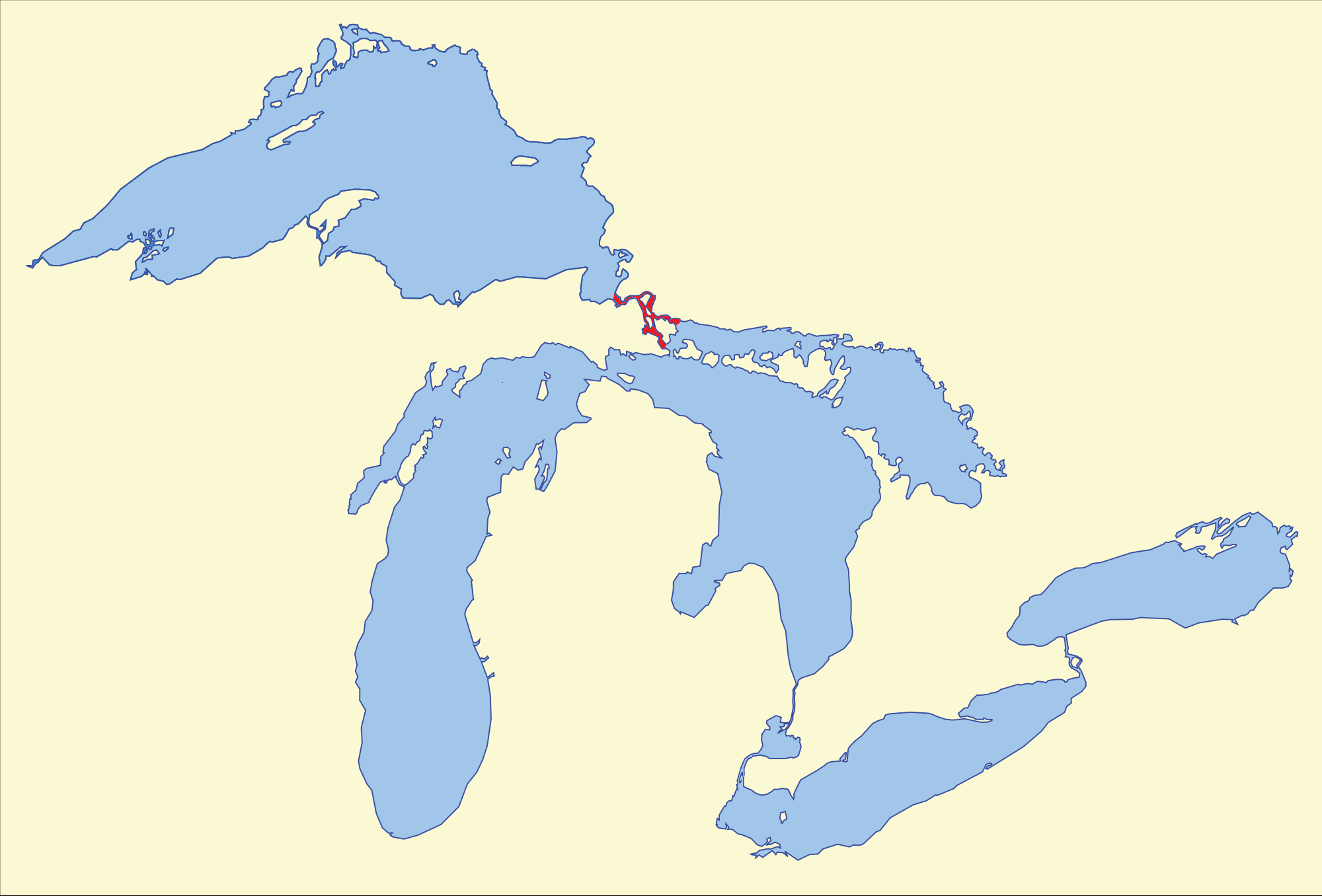 Modified version of the Great Lakes map originally uploaded by User:Phizzy to illustrate the location of the St. Marys River (Michigan–Ontario) in the Great Lakes system